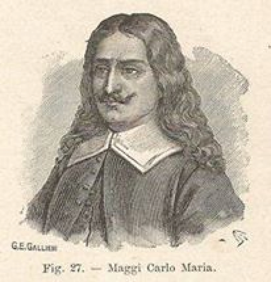 Carlo Maria Maggi